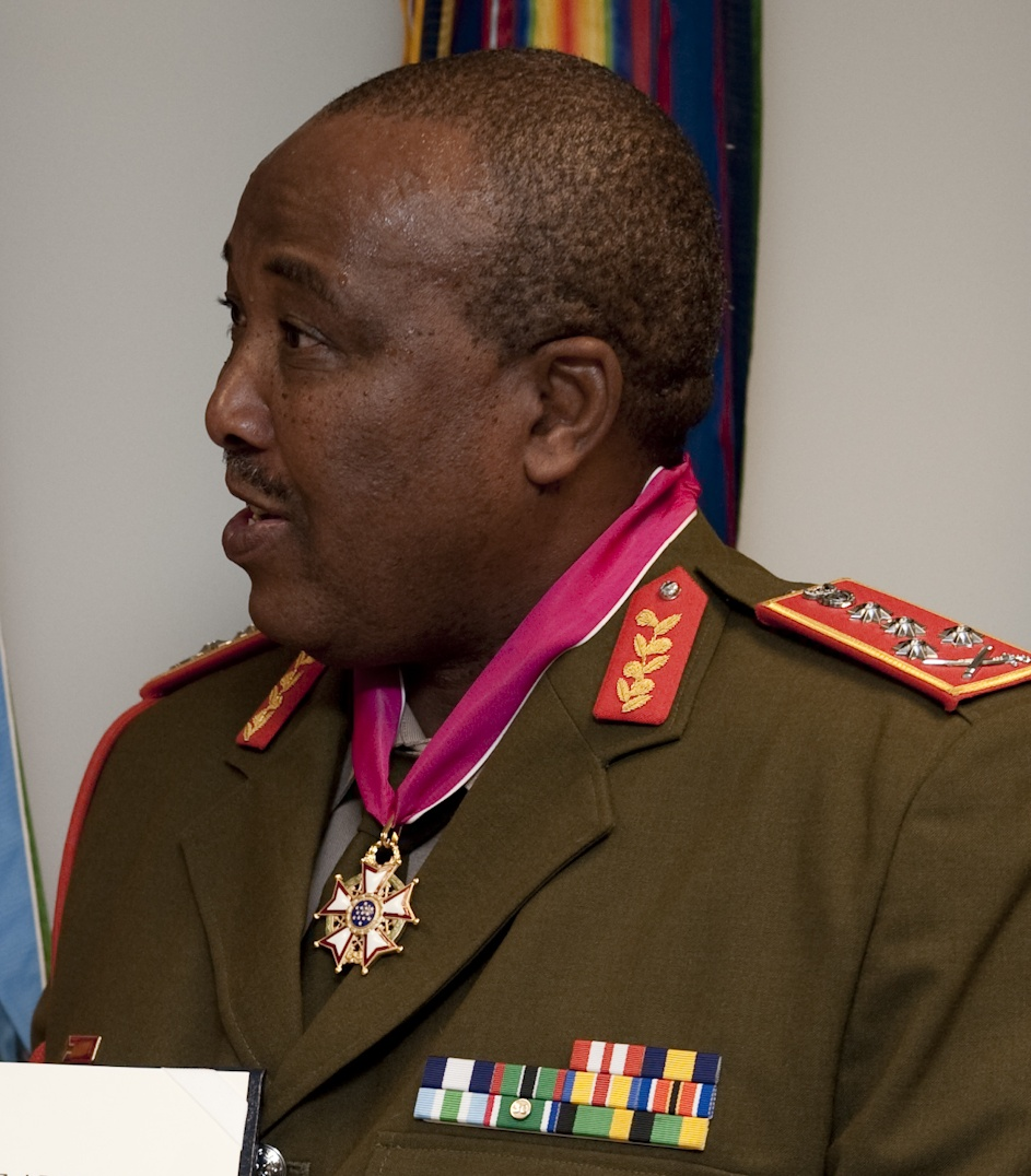 South African General Godfrey Ngwenya, cropped from 100520-N-0696M-086 Chairman of the Joint Chiefs of Staff Navy Adm. Mike Mullen, left, presents Gen. Godfrey Nhlanhla Ngwenya, chief of the South African National Defense Force, with the Legion of Merit May 20, 2010, at the Pentagon in Arlington, Va., for his leadership during a time of transition in the South African military and his country’s support of vital NATO peacekeeping operations in Sudan, Burundi and Congo. (DoD photo by Mass Communication Specialist 1st Class Chad J. McNeeley, U.S. Air Force/Released)